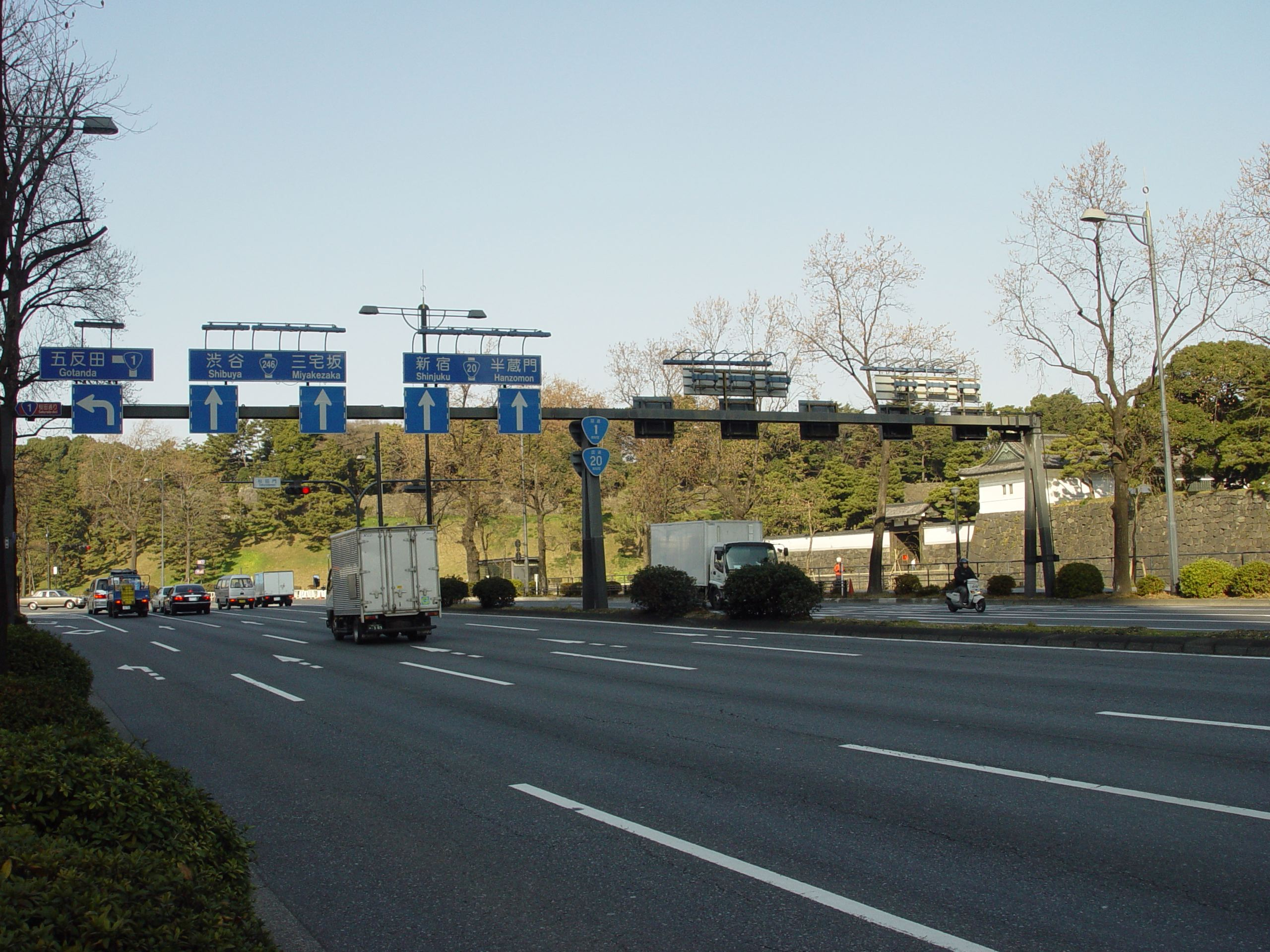 Route 1 and 20, Japan 国道1、20